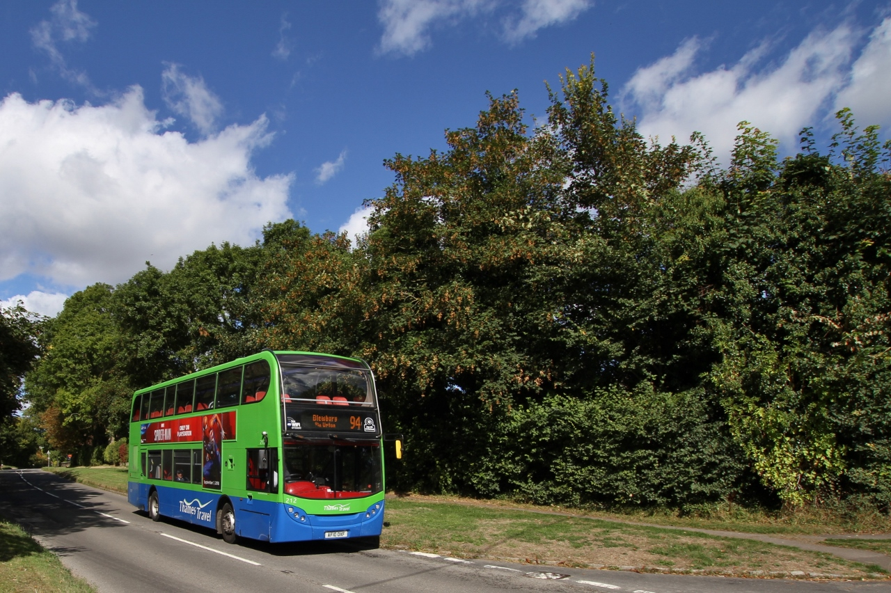 A Thames Travel bus on route 94 on London Road, Blewbury, Oxfordshire. The bus is a Scania N230UD with an Alexander Dennis Enviro400 body, registration mark AF10 OXF, fleet number 212.